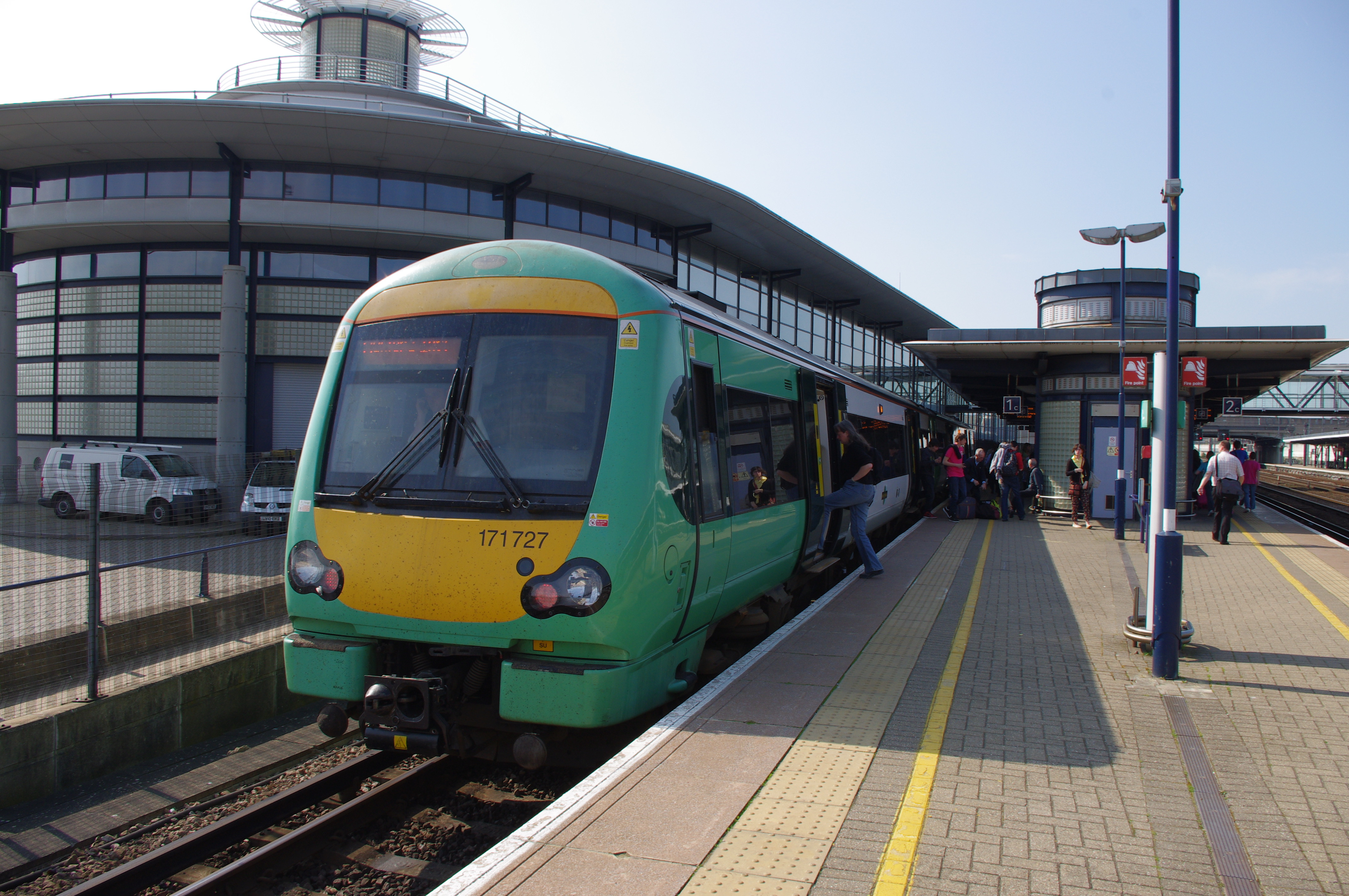 171727 at Ashford International